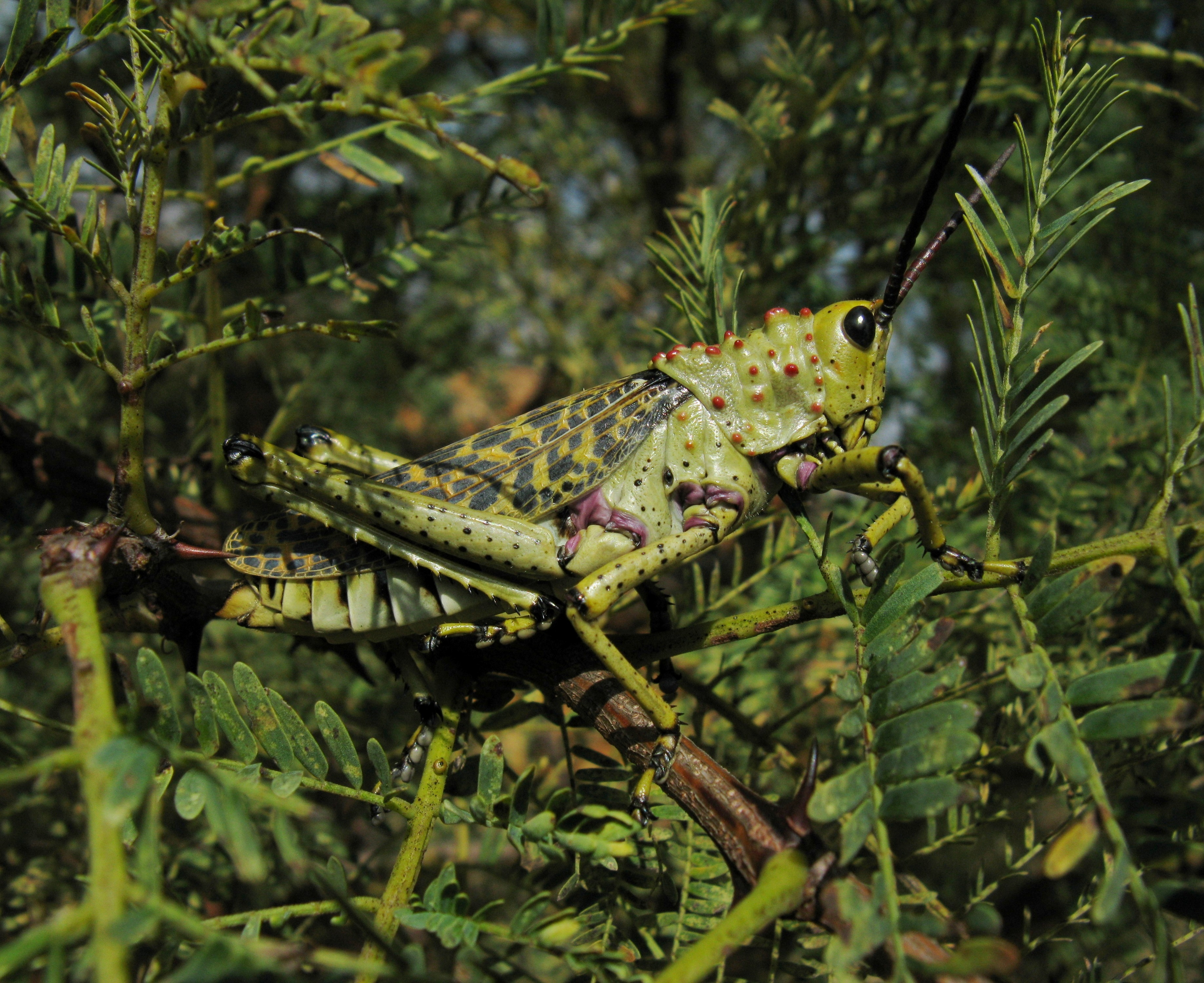 A male Common milkweed locust in thorn tree (African acacia sp.) at Sterkfontein, Gauteng